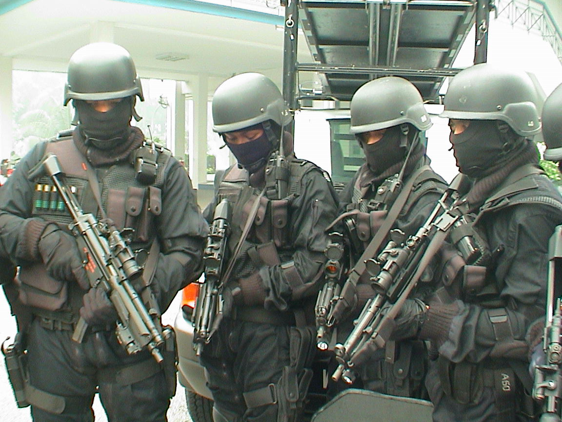 Sergeant 126456 As'ari Md Dahal (on the right) with three PGK Detachment A operatives on standby during the drill. They are arms with Heckler & Koch MP5A5 and MP5-N. Taken by me at outside PGK A Special Operations Training Facility in Bukit Aman, Kuala Lumpur.